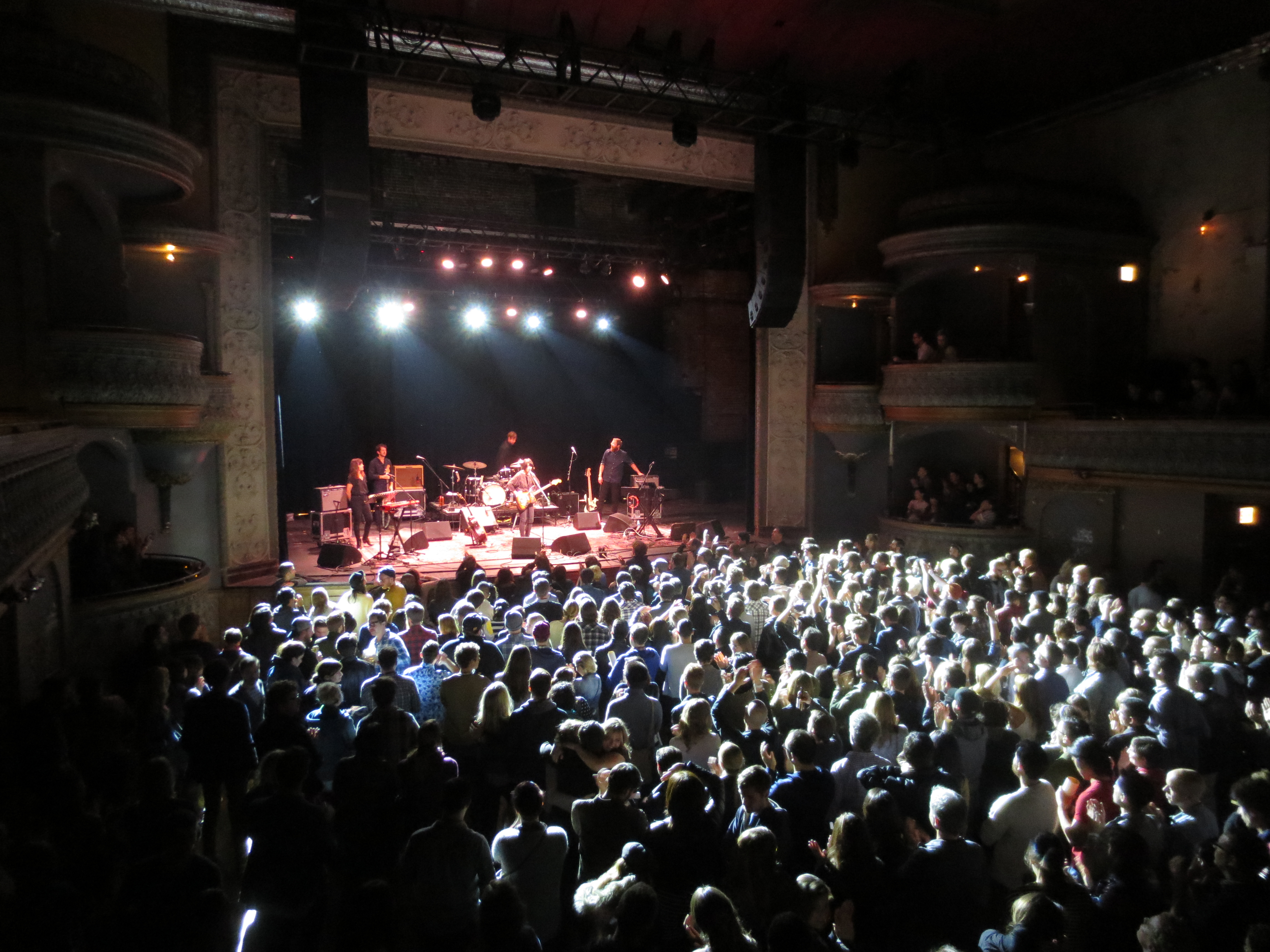 Flickr description Sharon Van Etten at Thalia Hall Chicago